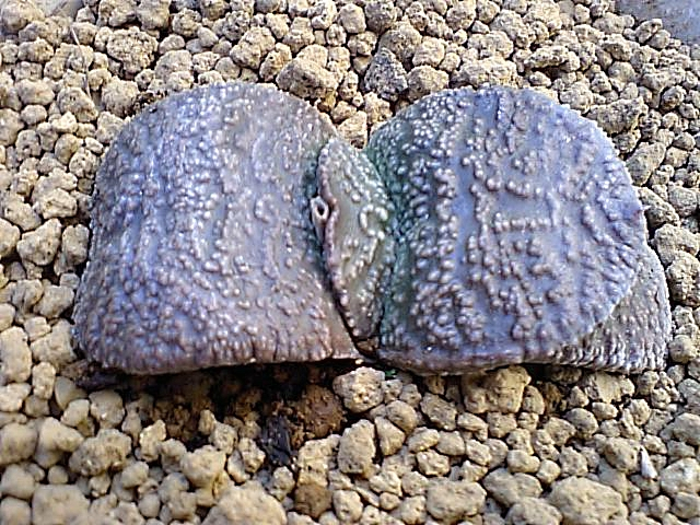 A Sunburnt Gasteria armstrongii